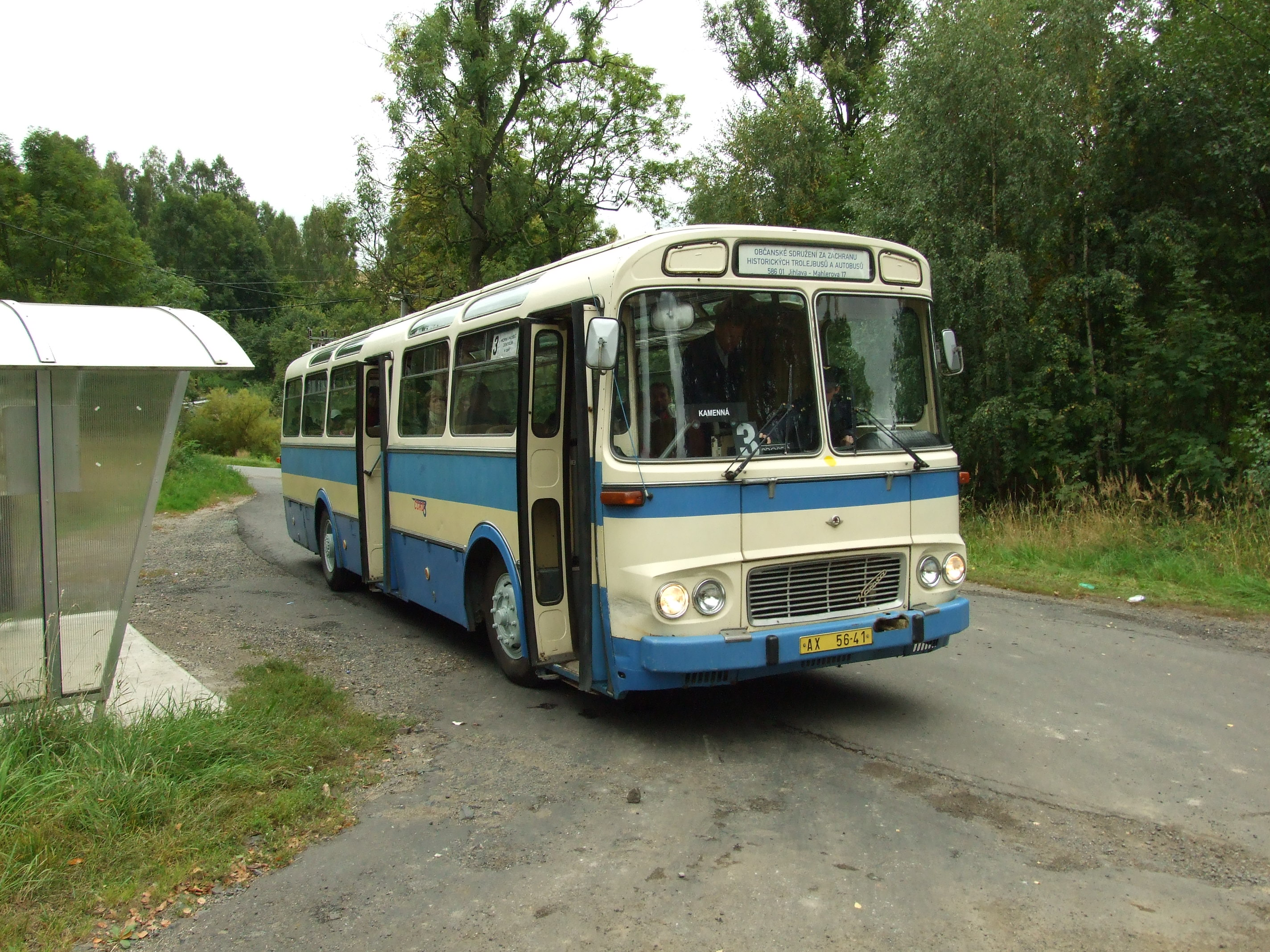 ŠL 11 histroic bus in Horní Proseč near Jablonec nad Nisou, Liberec region, CZ